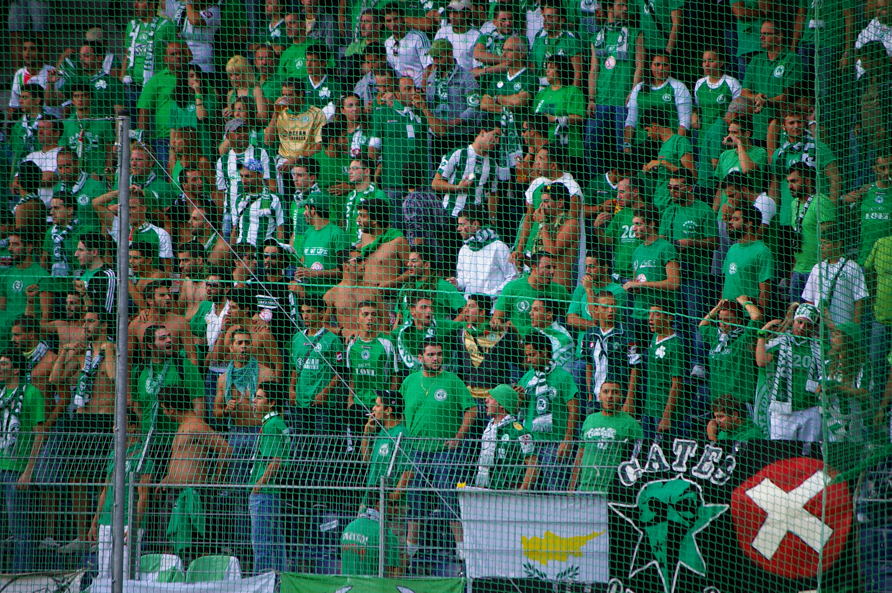 Supporters Omonia Nicosia Awaymatch vs. Red Bull Salzburg